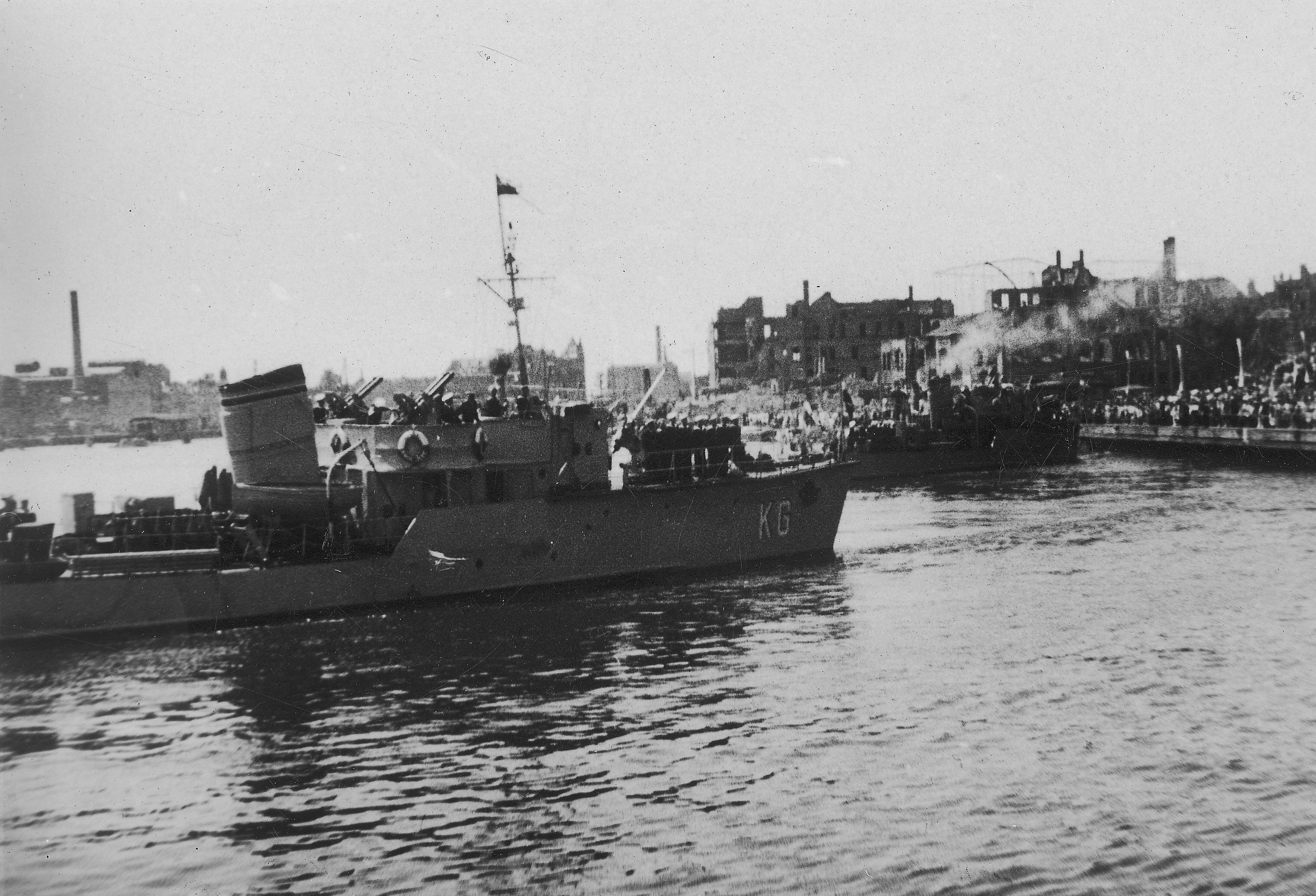 Sea Feast in Szczecin - Polish navy minesweeper ORP Krogulec.